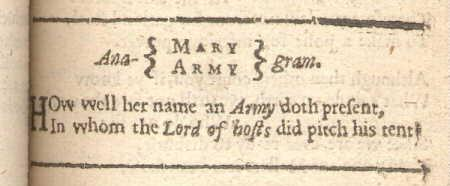 Scan of the poem "Anagram" from the 1633 edition of George Herbert's The Temple.